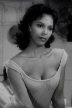 Screenshot of Dorothy Dandridge from the trailer for the film The Decks Ran Red.